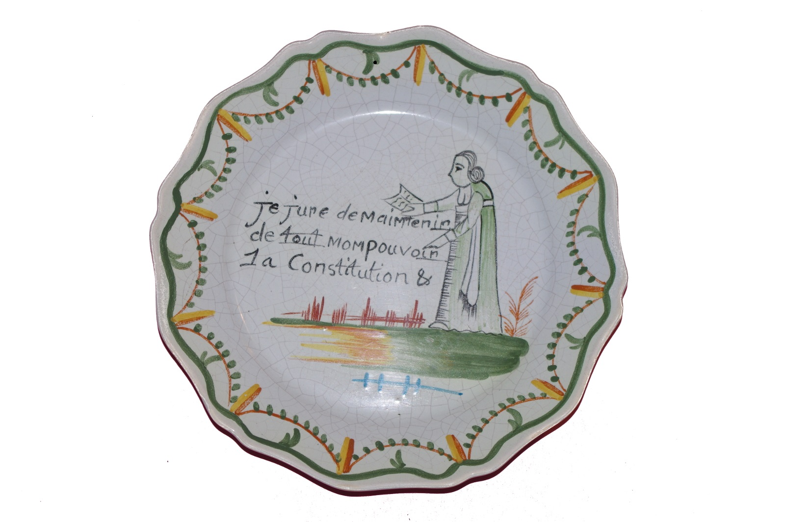 French revolution. Priest pledging to the consitution.